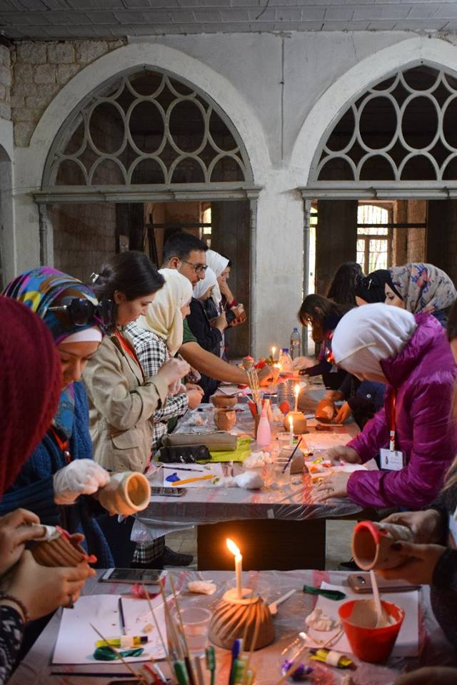 Events of the days of pottery restoration workshop in Rehab Association Aladyat of Aleppo 1-4 / 11/2017